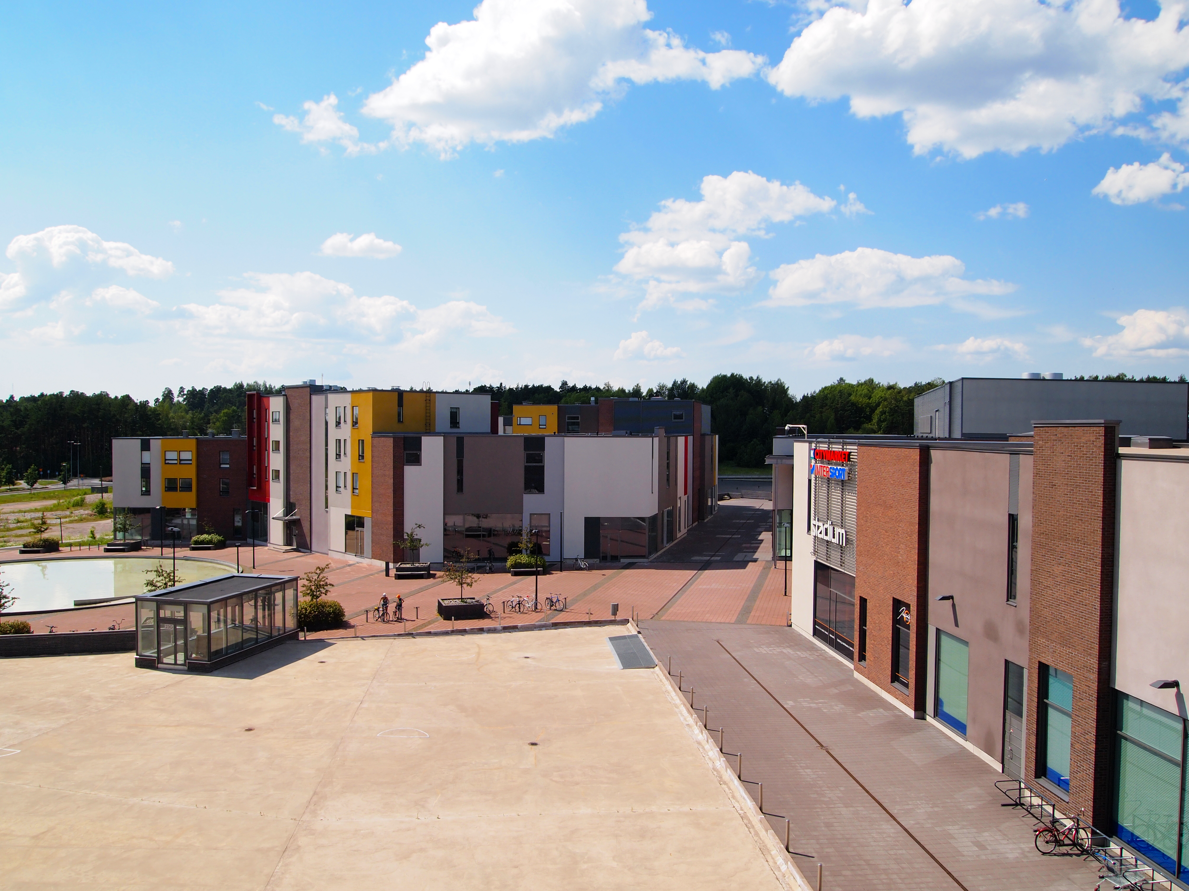 View from Skanssi shopping mall, Turku. This photograph was taken with an Olympus E-PL1